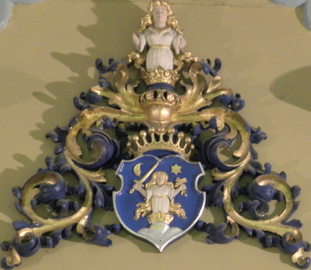 Coat of arms of Szapáry family. Organ in the St. Elisabeth Church (Blue Church), Bratislava.